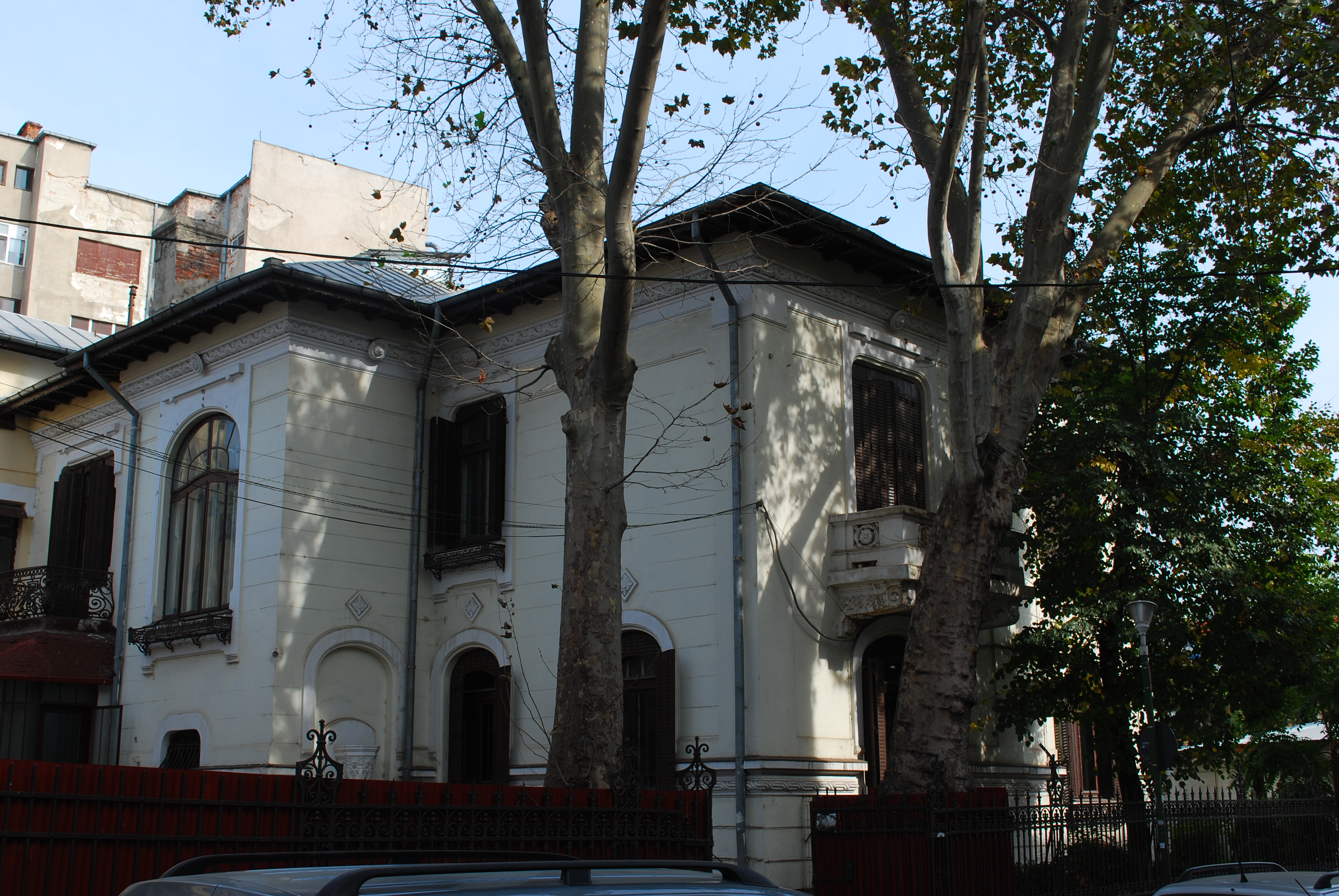 Historical building in Bucharest, Romania, on Corneliu Coposu boulevard 37